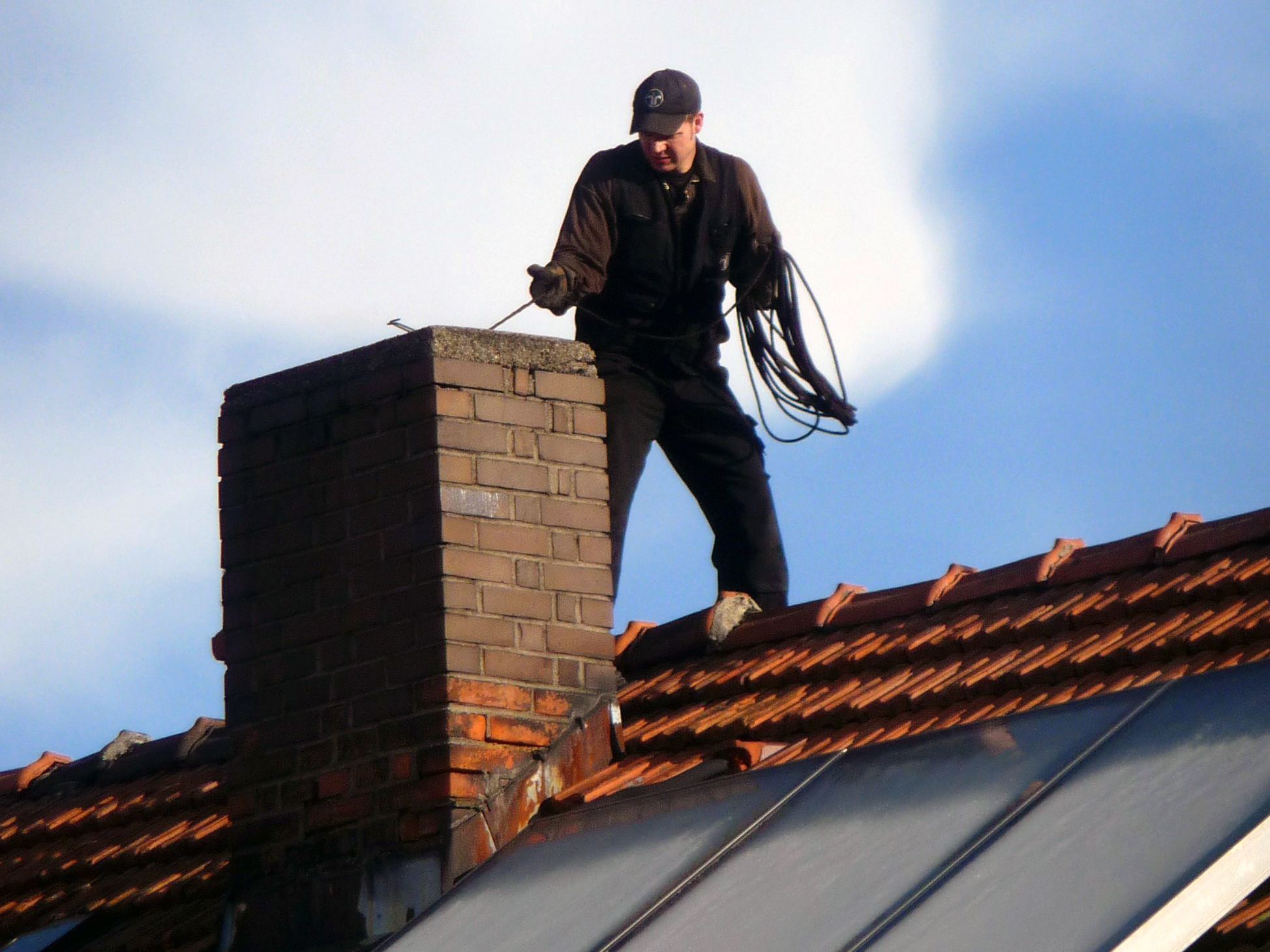 Chimney sweep at work